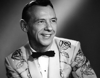 Photo of Hank Snow. The photo has no copyright markings on it as can be seen in the links above.